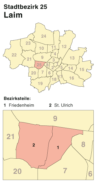 Boroughs of Munich map series